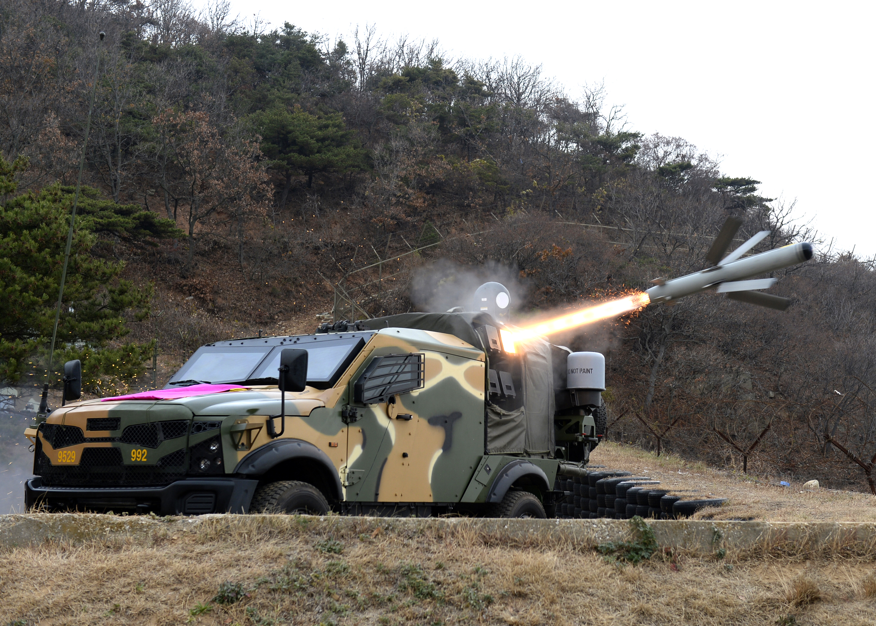 South Korean Spike missile leaves launch tube with its wings unfolding from the missile's body